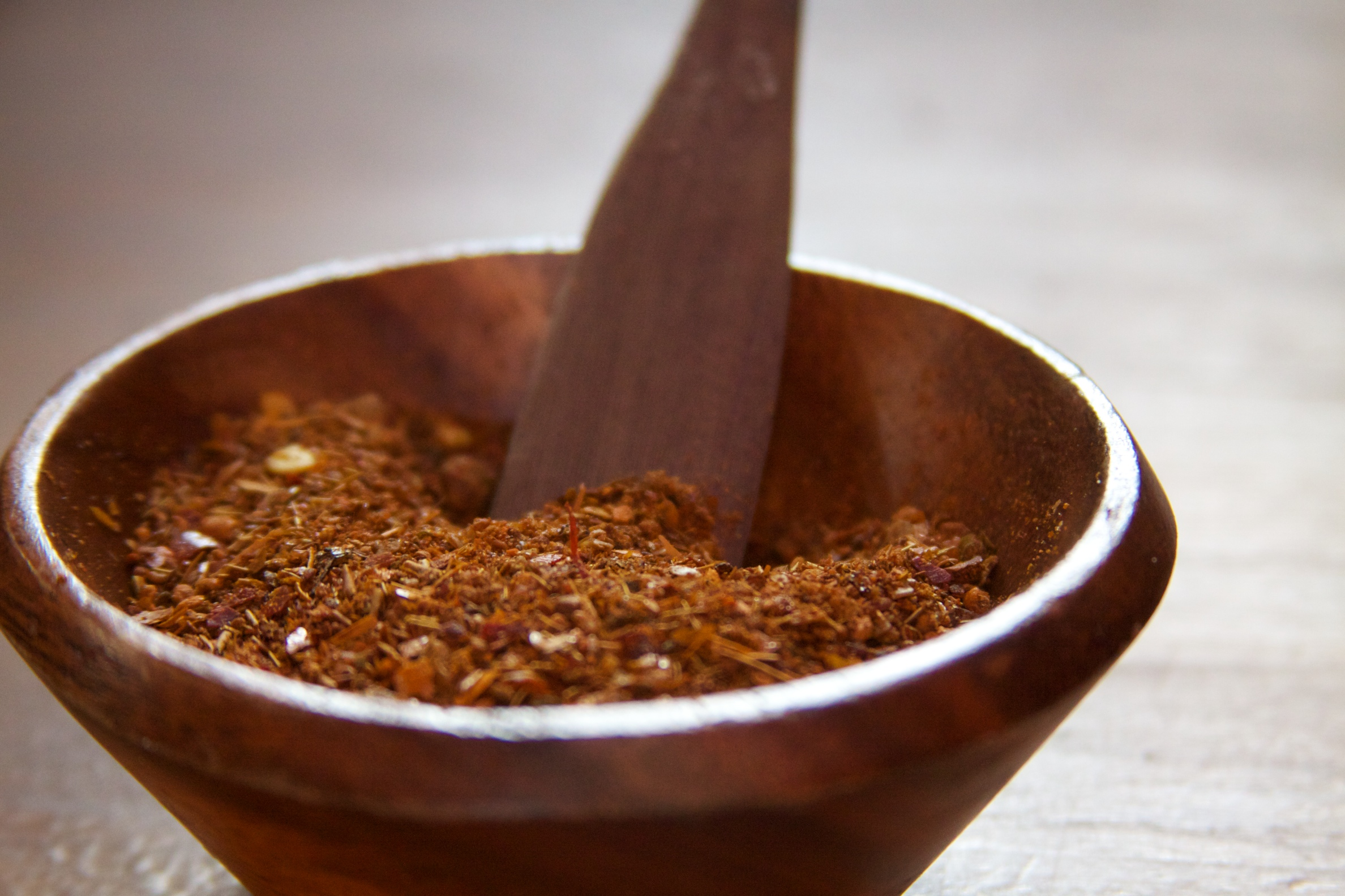 A local Mapuche Chilean spice, merken has a warm, rich flavour. It is added to most everything, from pizza (awesome) to beer (also awesome).